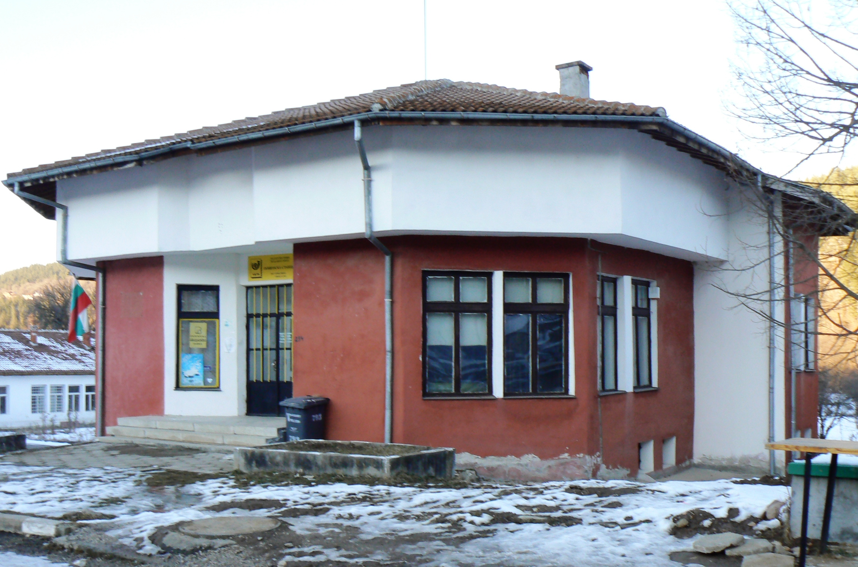 The post office of village Treklyano, Bulgaria